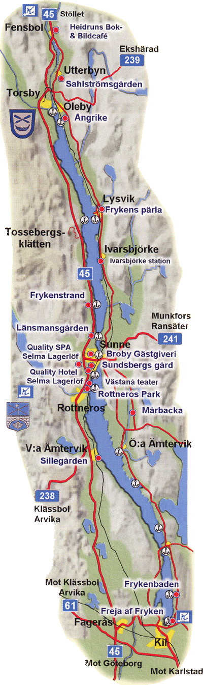 Created and uploaded by me Free to distribute!